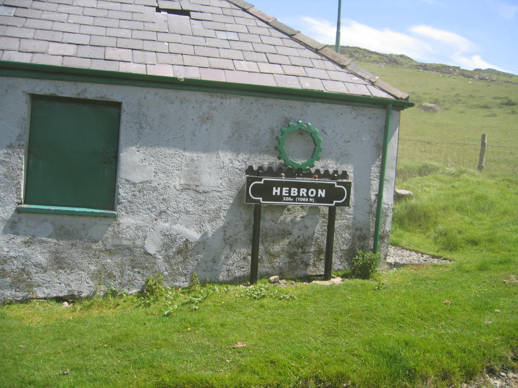 This image was taken in June 2005 by myself. It shows Hebron Station.